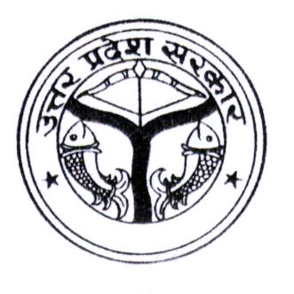 Uttar Pradesh Government Seal